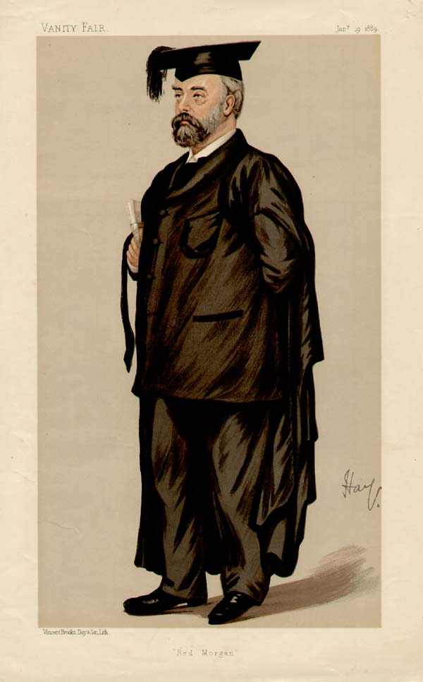 Caricature of The Rev Edmund Henry Morgan MA. Caption read "Red Morgan".